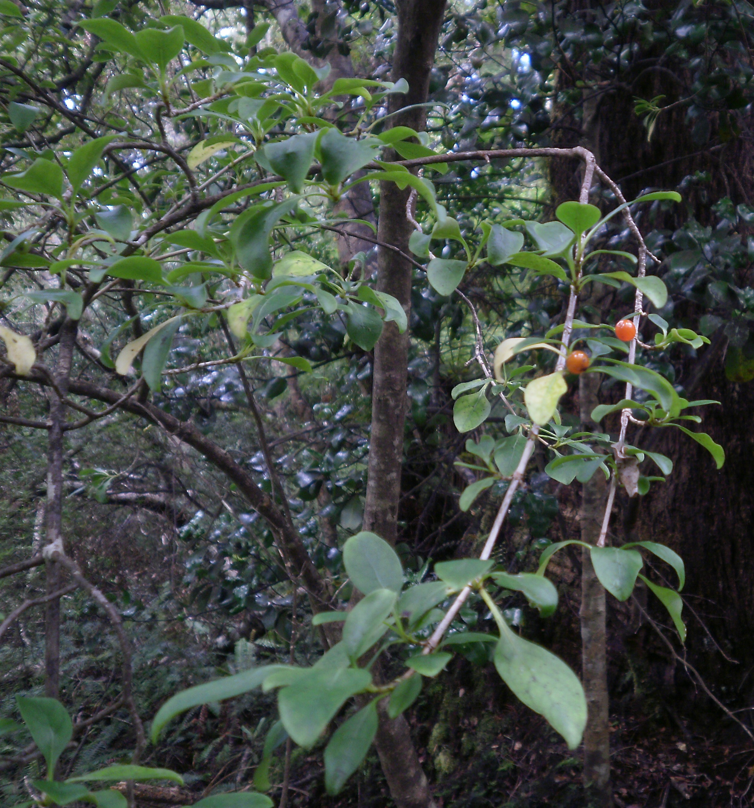 Coprosma foetidissima, stinkwood, hūpiro, foliage with orange fruit in Tararua Forest Park, New Zealand.